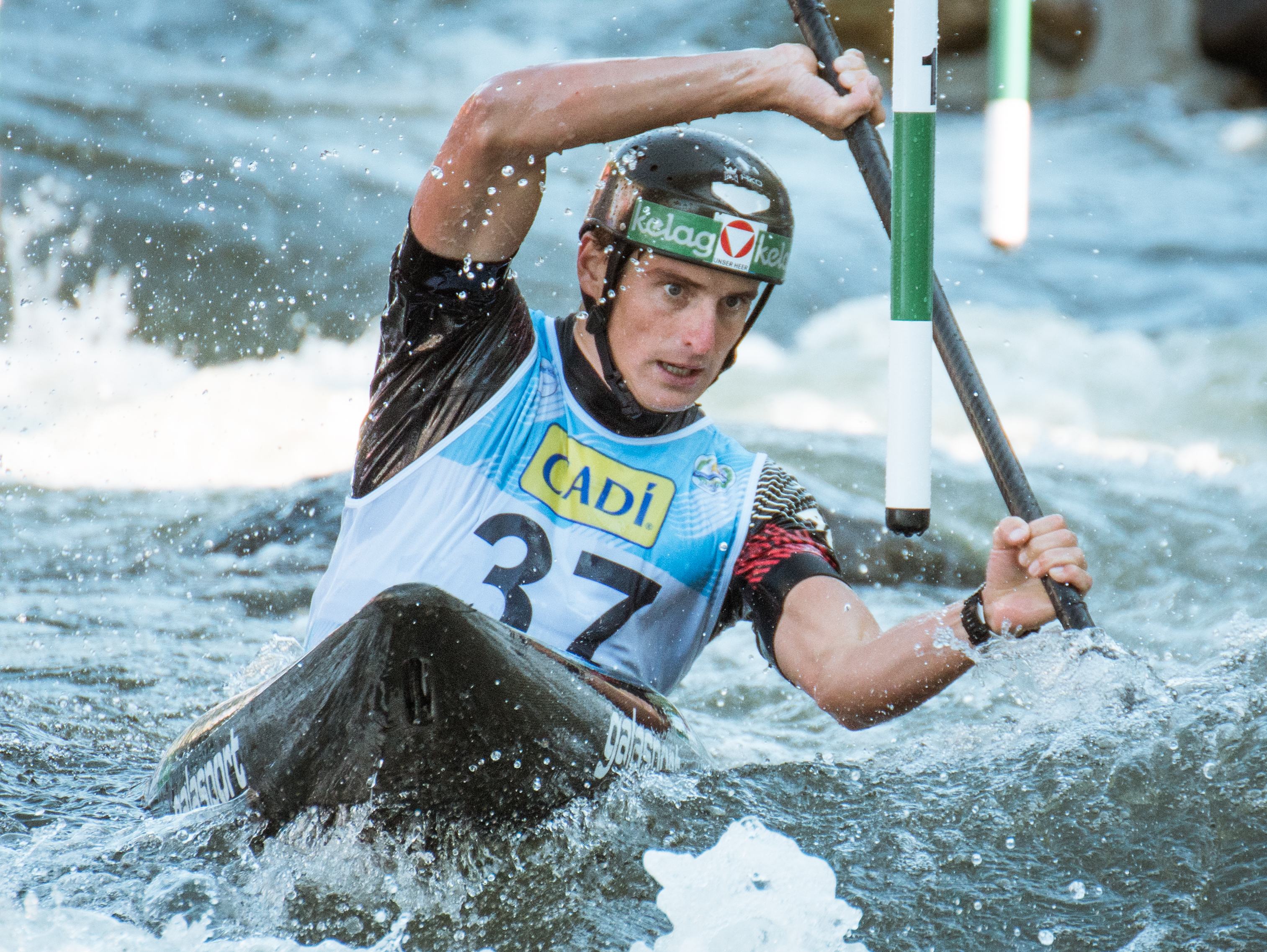 Mario Leitner during the 2019 Canoe Slalom World Championships in La Seu d'Urgell, Spain.